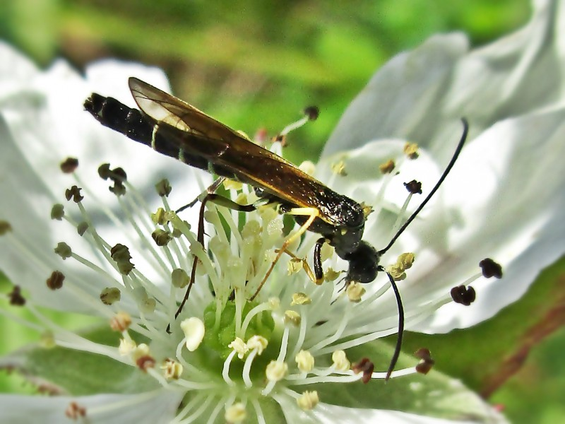 Calameuta filiformis (Cephidae sp.), Arnhem, the Netherlands